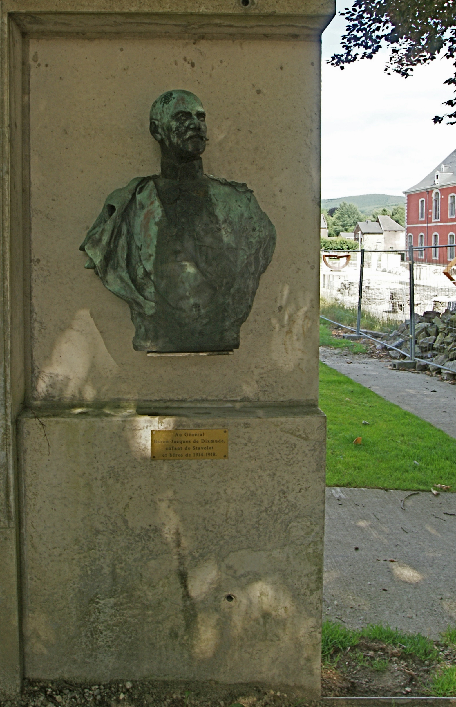 Stavelot (Belgium): Abbey, Monument dedicated to general Jacques de Dixmude